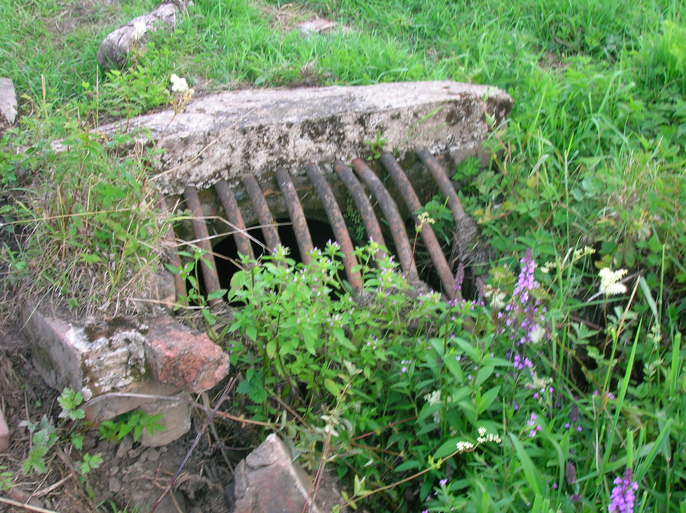 Drain at north end of Lochend Loch, Joppa, South Ayrshire, Scotland.